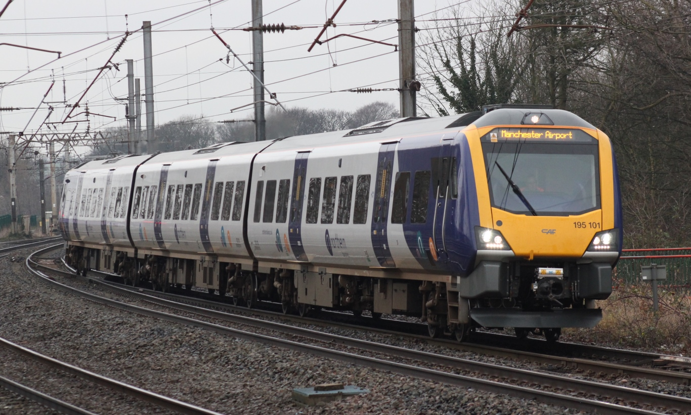 195101 arrives at Lancaster with a Northern service from Barrow-in-Furness to Manchester Airport.